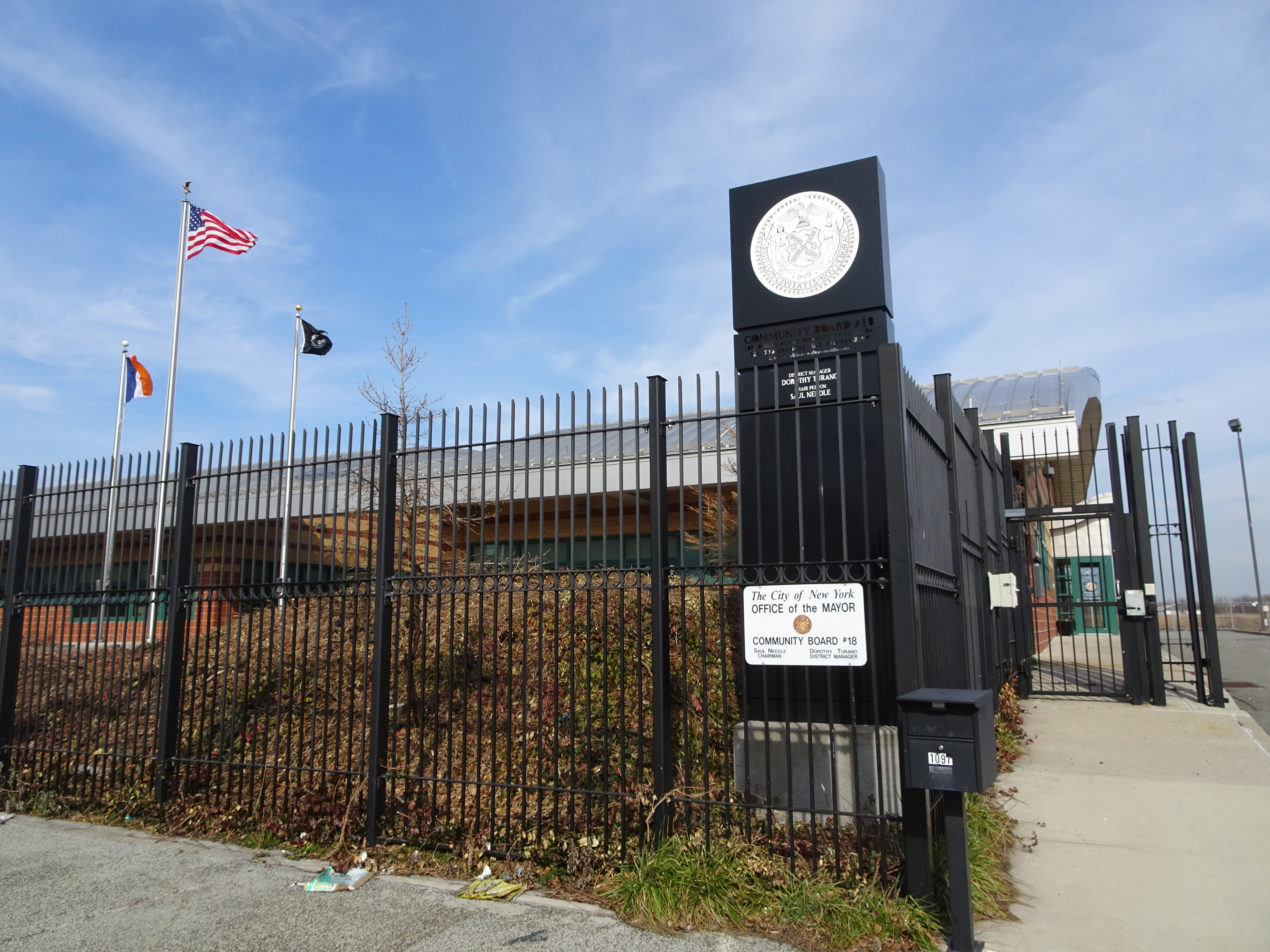 Looking north at entrance sign